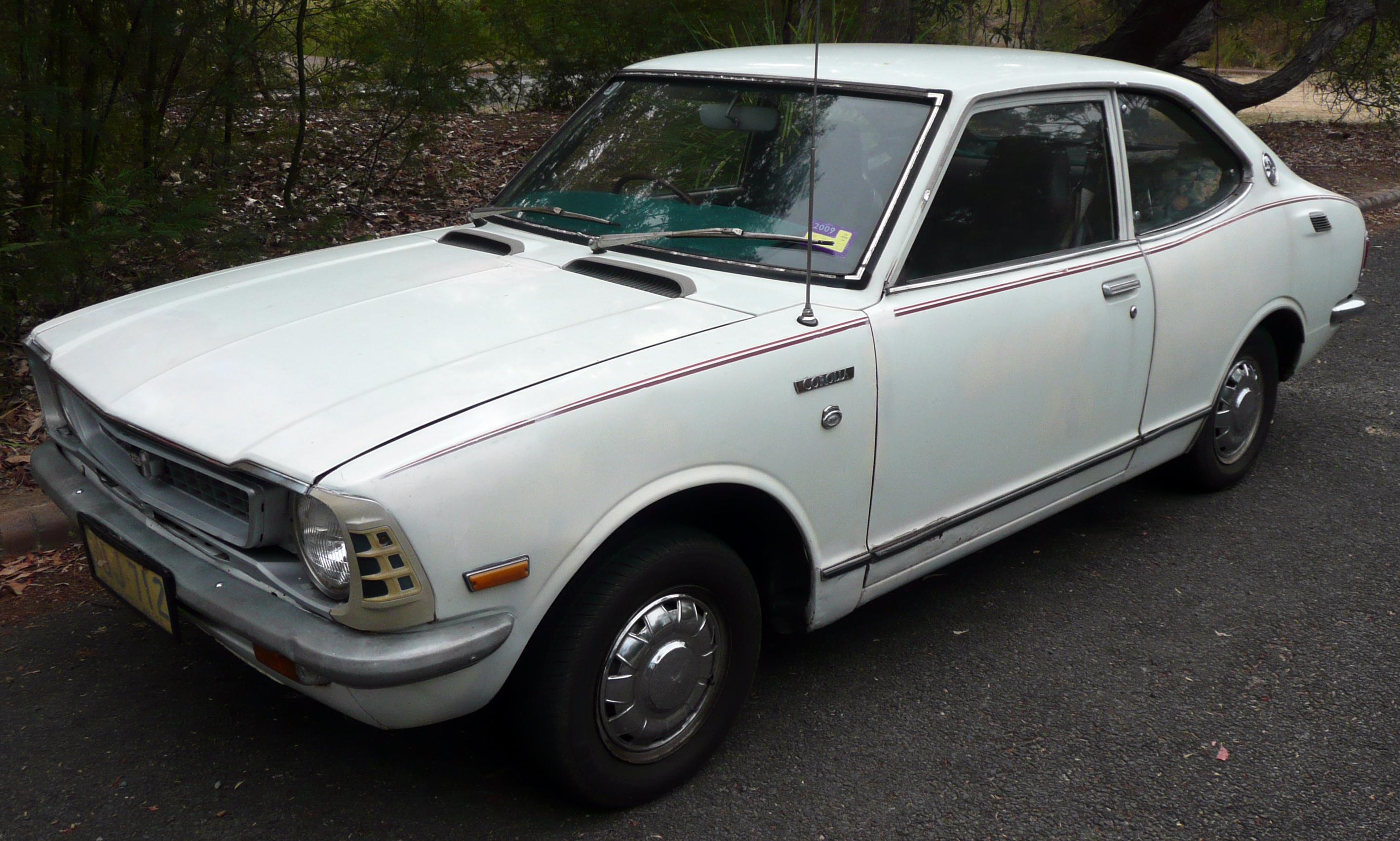 1973 Toyota Corolla (KE25-D) Deluxe coupe. Photographed in Audley, New South Wales, Australia.